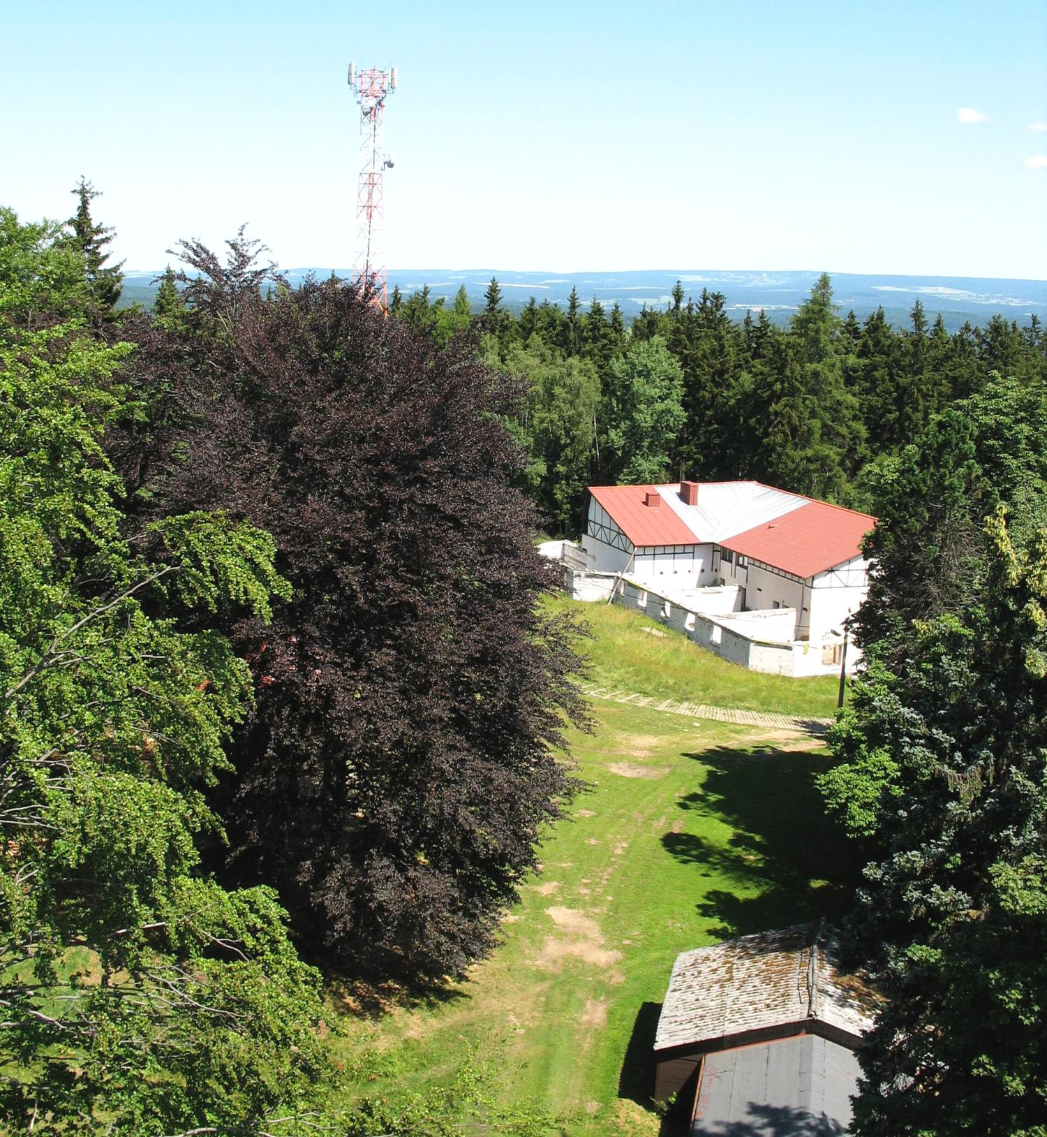 The peak of mountain Háj, Fichtelgebirge, Czech republic